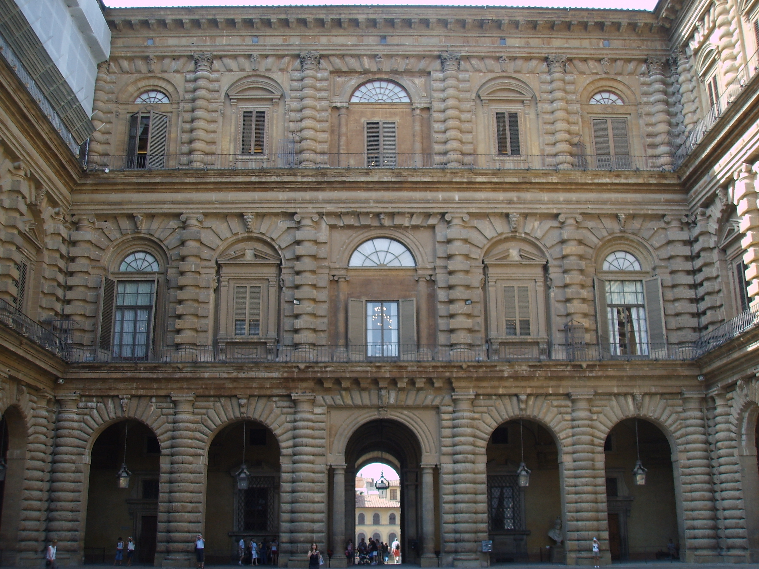 Palazzo Pitti, main courtyard, in Florence Italy.